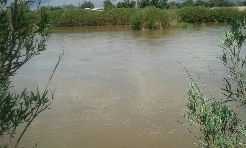 Rio Grande river